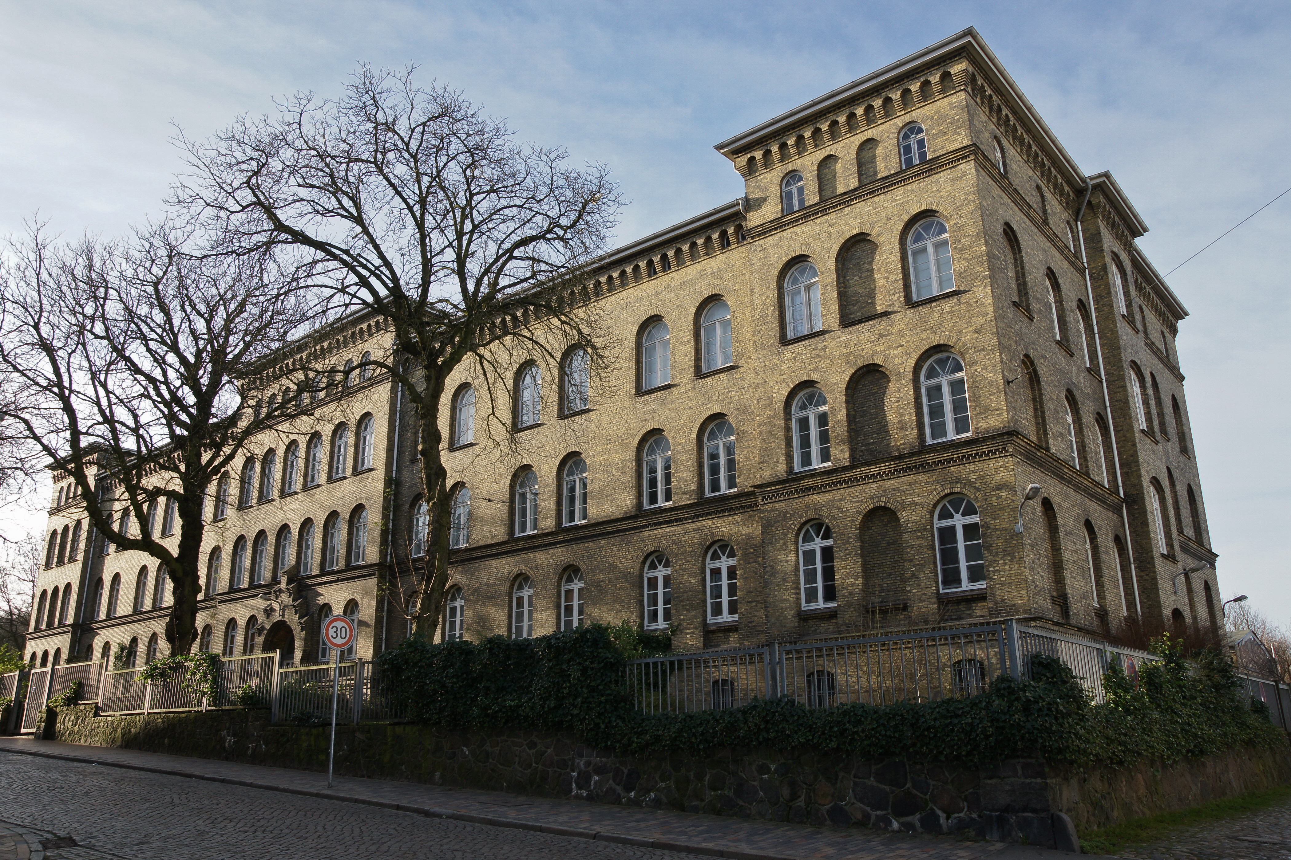 Junkerhohlweg-Barracks build in 1885-89. Since 1996 used as Appartment Building.